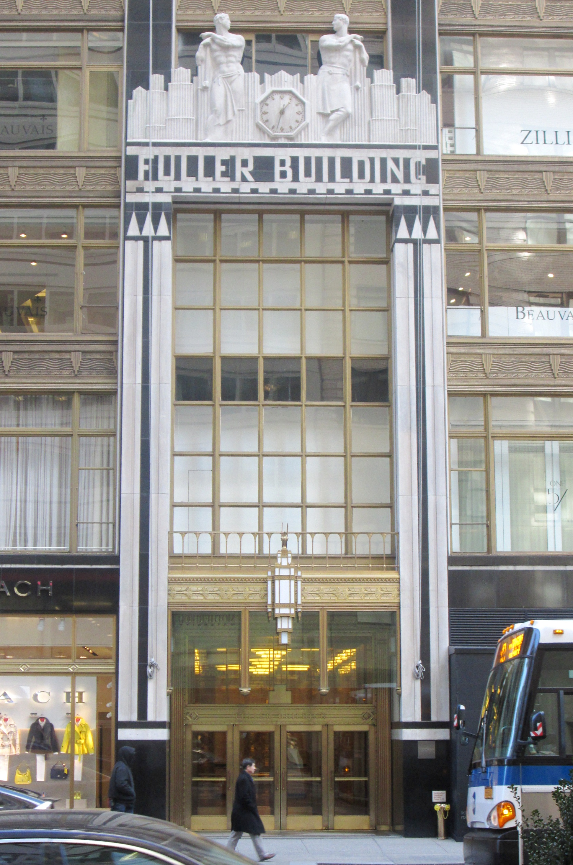 The Fuller Building, at 41 East 57th Street at Madison Avenue in Midtown Manhattan, New York City, was built in 1928-29 and was designed by Walker & Gillette in the Art Deco style, with architectural sculptures by Elie Nadelman, some of which can be seen at the top of the three-story entrance. The building was named after George A. Fuller, the architect and contractor known as the "father" of the modern skyscraper. It was the headquarters of the Fuller Construction Company after it left the Flatiron Building (which was also originally called the "Fuller Building"). The building was designated a New York City Landmark in 1986. (Source: AIA Guide to NYC (5th ed.( and Guide to NYC Landmarks (4th ed.))